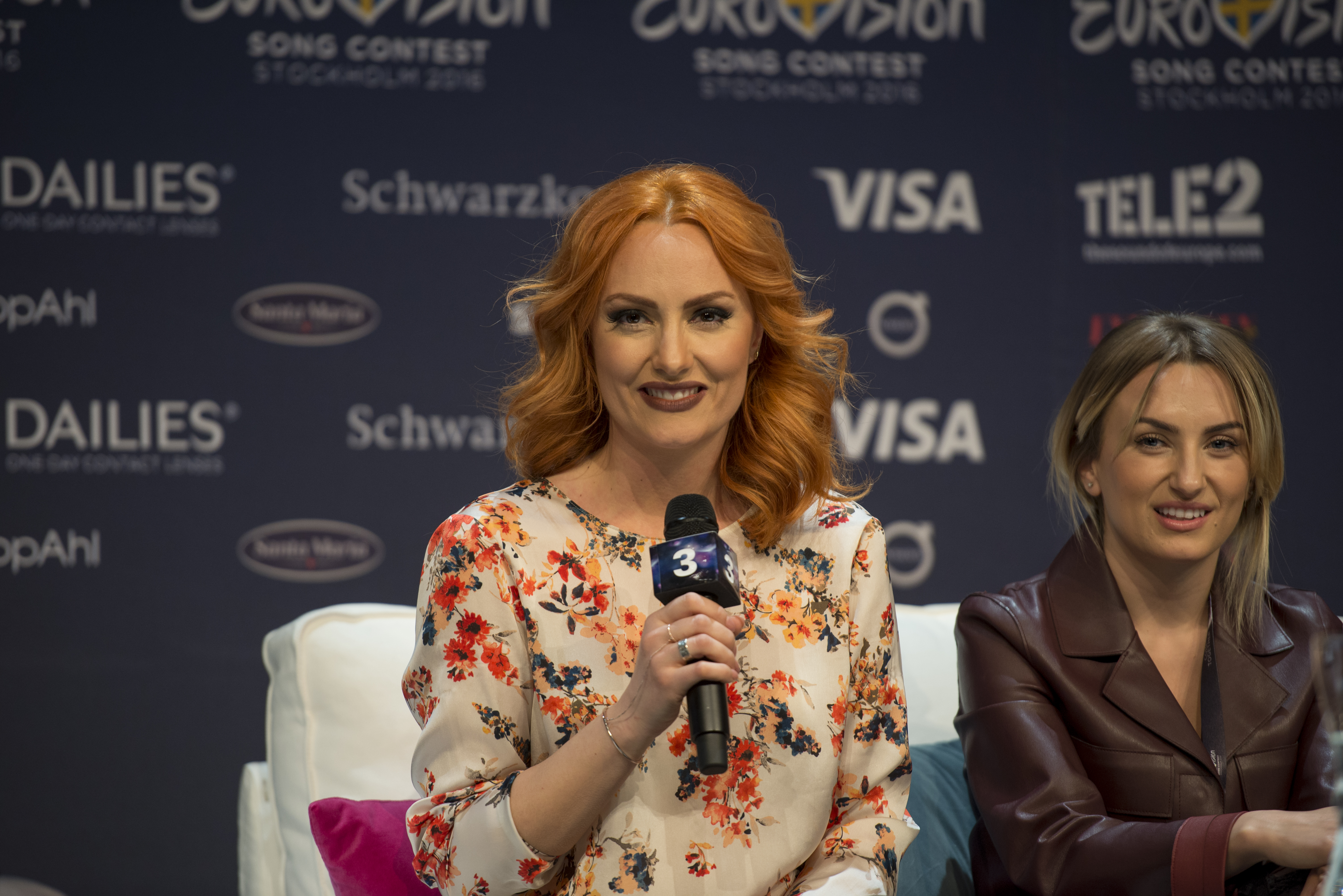 Eneda Tarifa at a Meet & Greet during the Eurovision Song Contest 2016 in Stockholm. (Help translate this text)